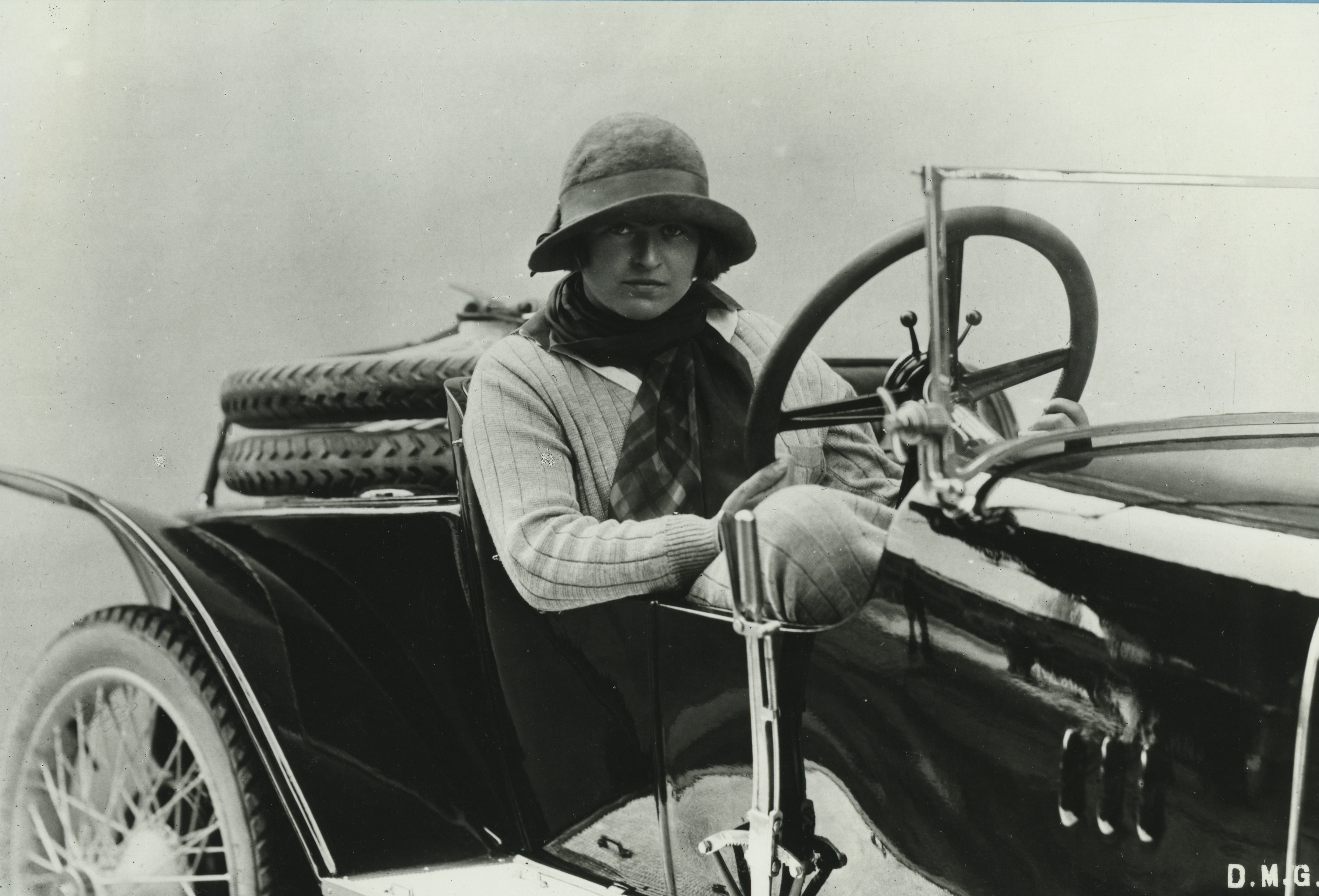 Ernes (Ernesta) Merck, née Rogalla von Bieberstein, German racing driver.